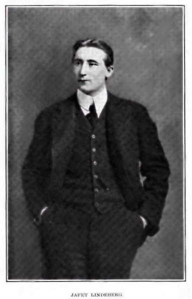 Jafet Lindeberg was a successful Nome Alaska businessman. He started out as a successful prospector, one of the "Three lucky Swedes" who made the first big gold strike at Nome, and went on to have interests in many businesses. The subject is historically interesting but this is also posted as an example of a problem with images scanned from printed sources